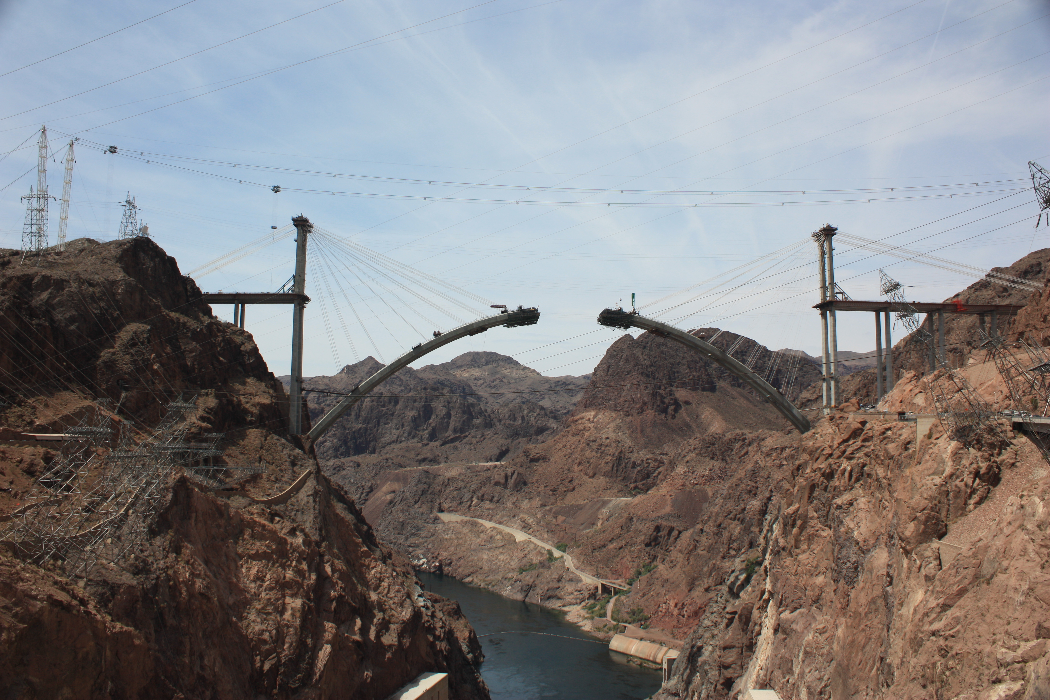 Hoover Dam Bypass bridge under construction.